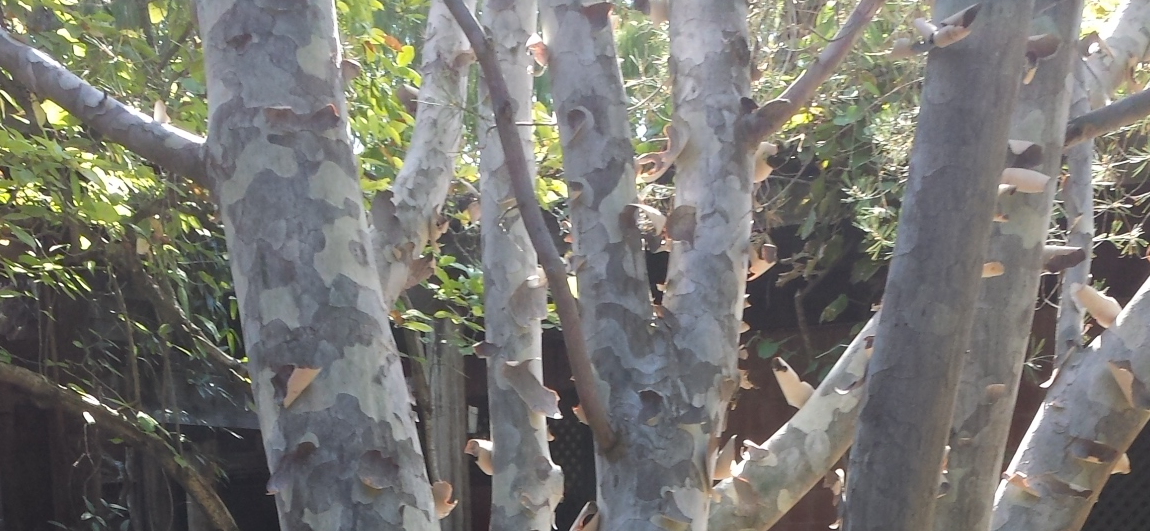 William Collins, photo